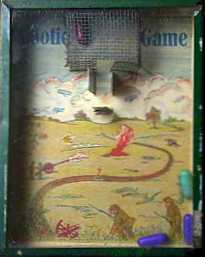 Image of Cootie Game, dated 1918